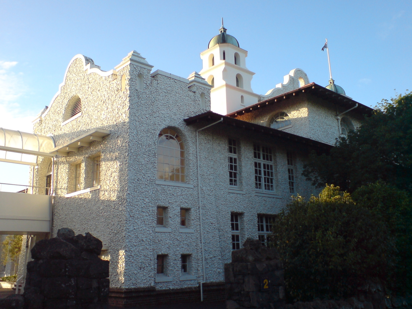 A building of Auckland Grammar School in Auckland City, New Zealand. Looking northwards from the footpath of Mountain Road.